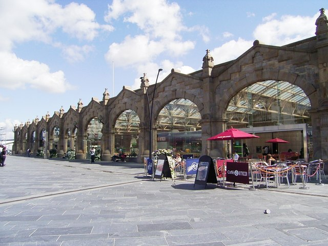 Sheffield Railway Station Originally the Midland Railway Station and built in 1870 this was the fifth and last station to be built in Sheffield, the Frontage to the station that you can see was built in 1905 when an extra platform was added.